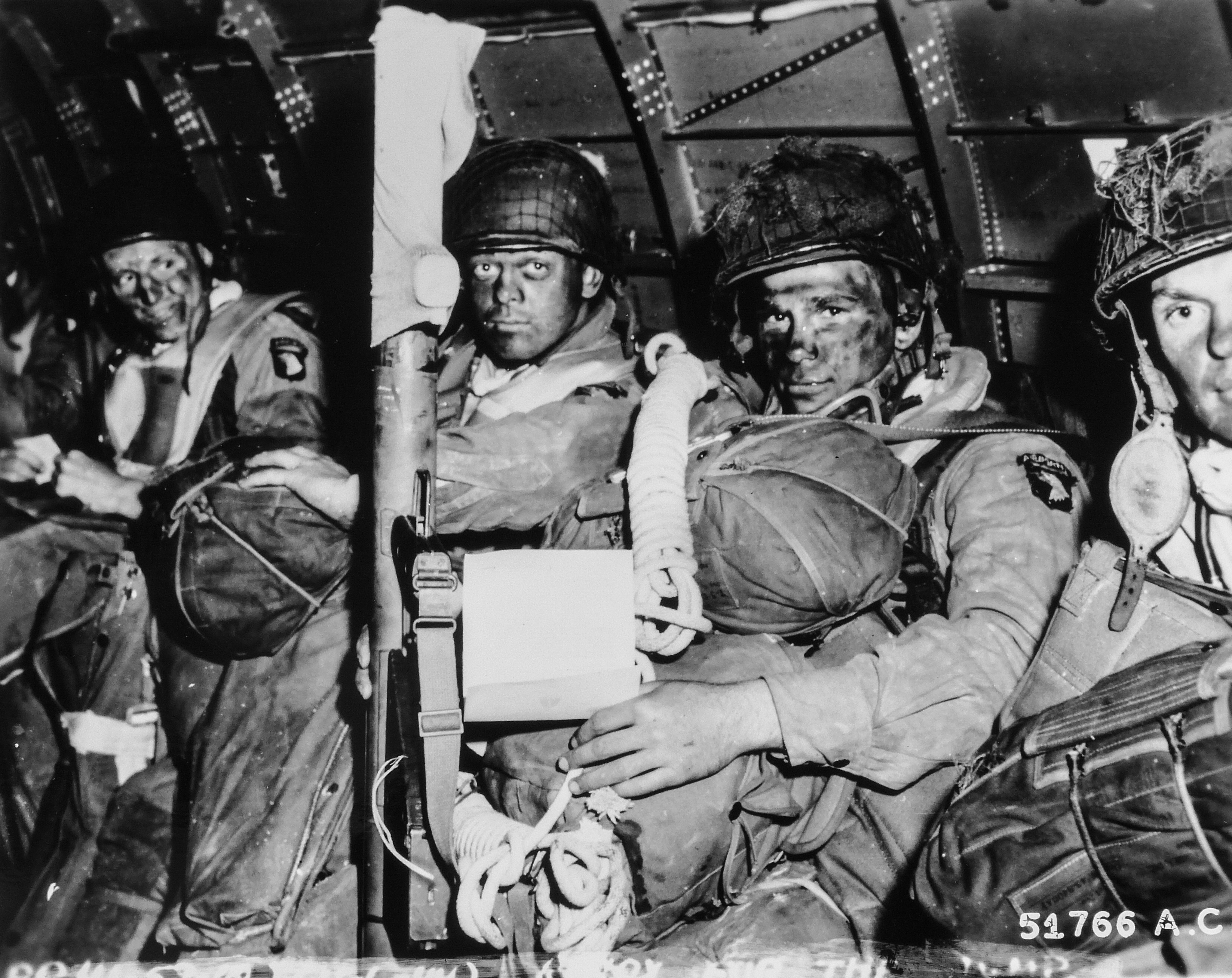 Original caption: See You in Berlin. Resolute faces of paratroopers just before they took off for the initial assault of D-Day. Paratrooper in foreground has just read Gen. Eisenhower's message of good luck and clasps his bazooka in determination. Note Eisenhower's D-Day order in hands of paratrooper in foreground.